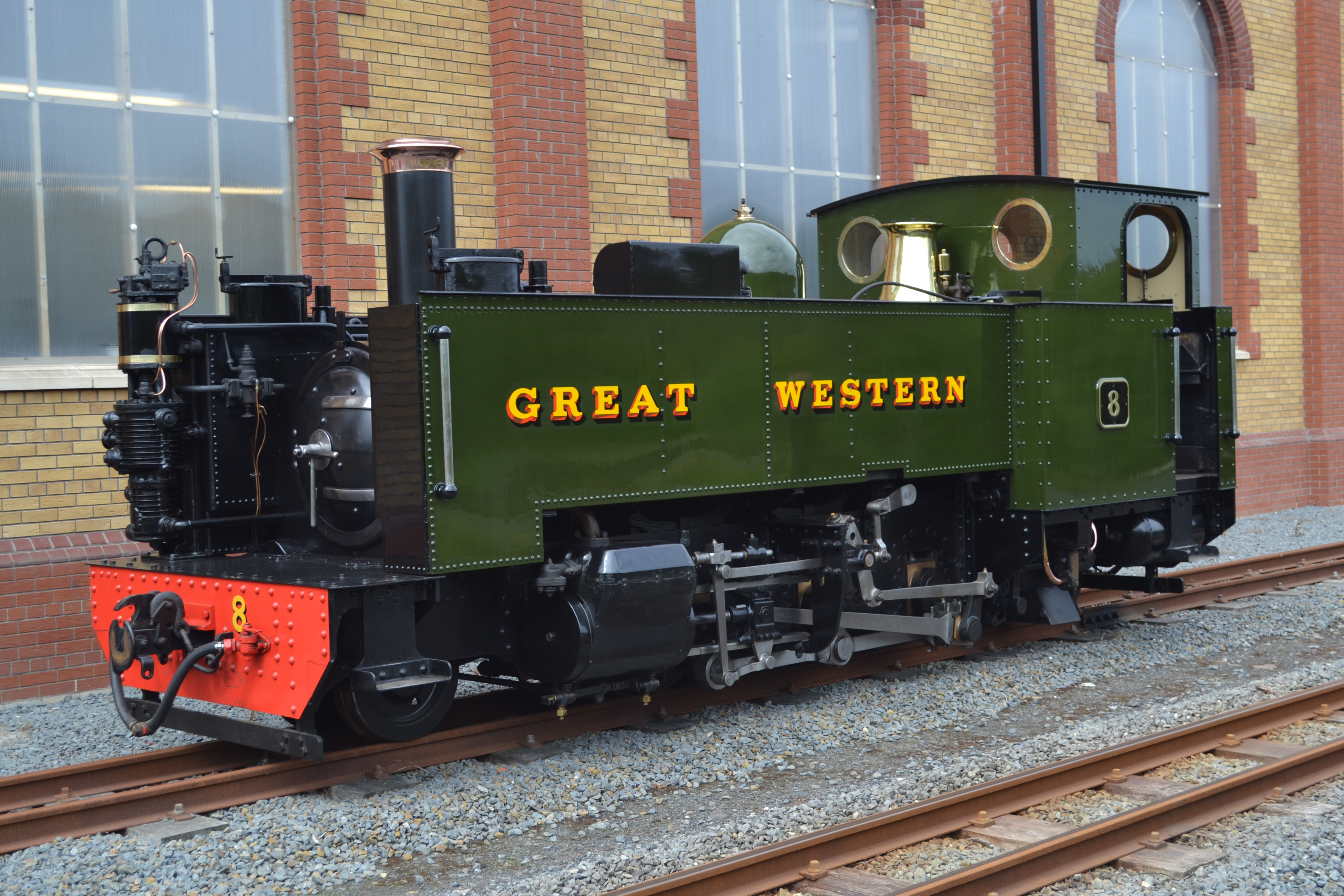 Vale of Rheidol Railway No 8 Llywelyn - June 2015